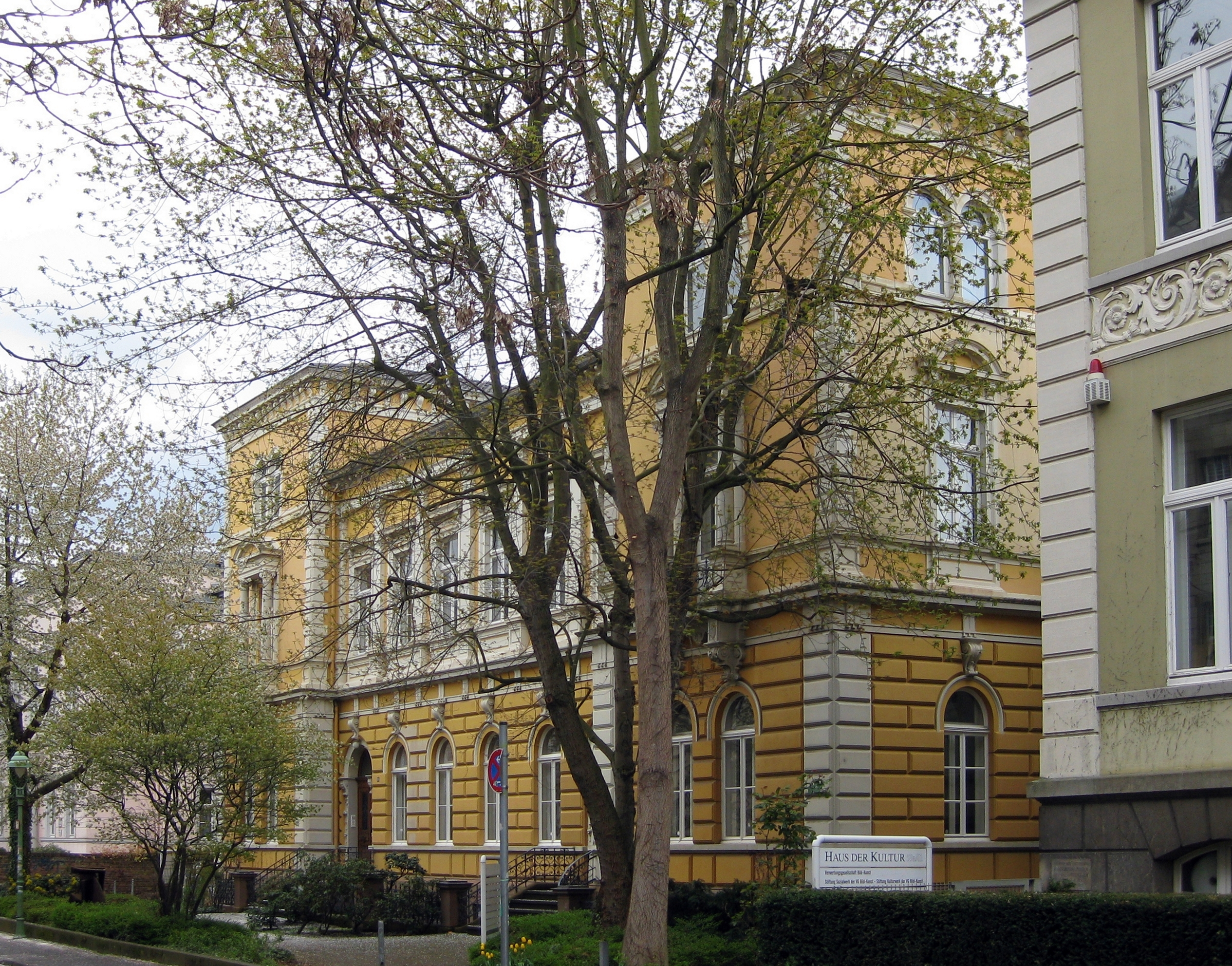 Germany, Bonn, Suedstadt (southern city), Weberstrasse: headquarters of the "Haus der Kultur" (House of Culture), home to several organizations in the cultural sector.